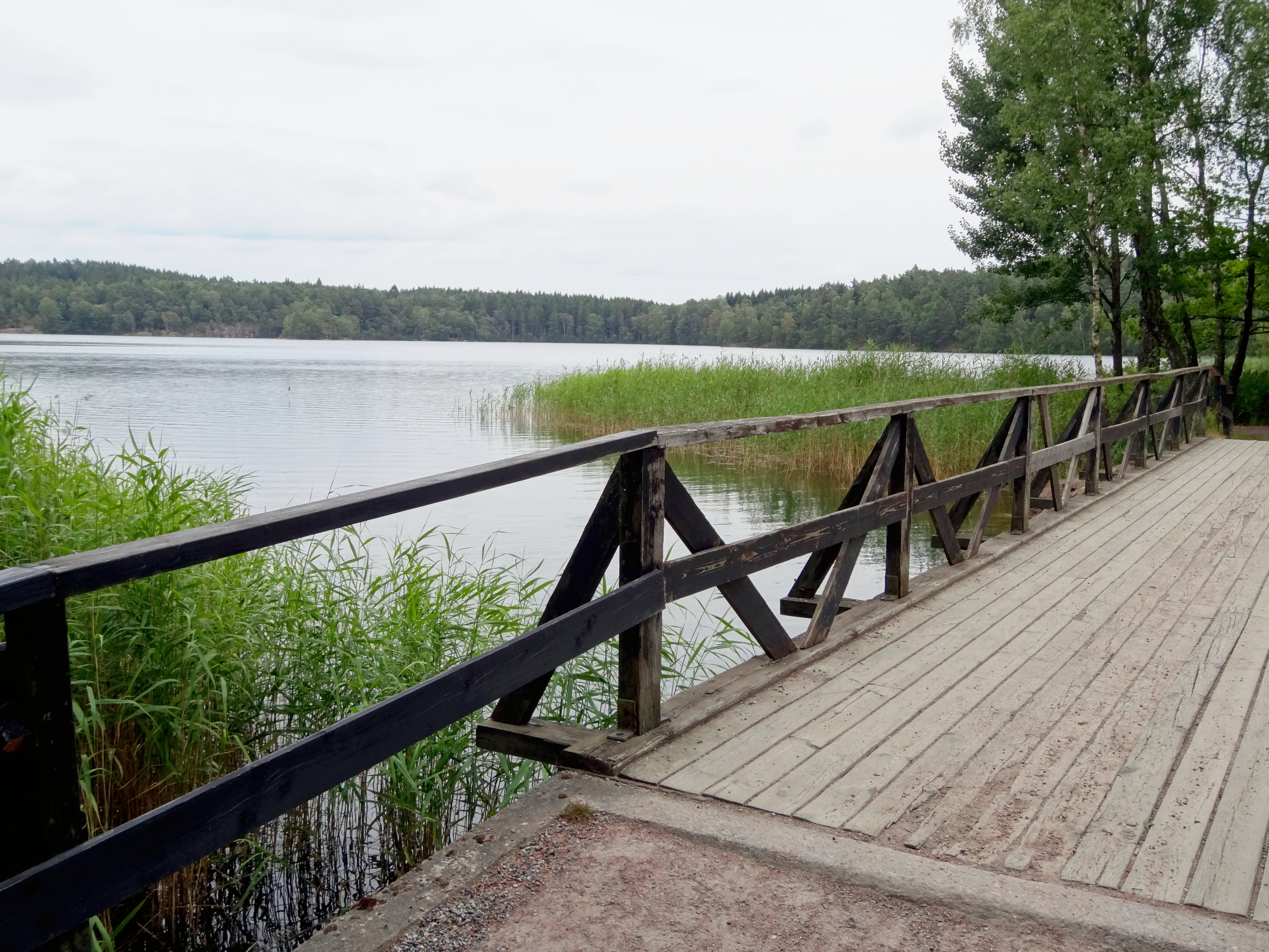 Delsjöområdet, ett grönt område i Västra Götaland i anslutning till Göteborgs stad. Lilla Delsjön sedd från bron mellan Stora och Lilla Delsjön.